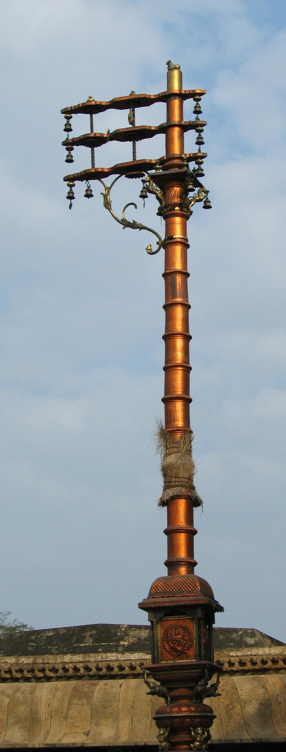 Thanjavur - Brihadisvara Temple